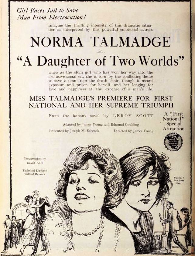 Advertisement for the American drama film A Daughter of Two Worlds (1920) with Norma Talmadge, on page 18 of the January 17, 1920 Exhibitors Herald.